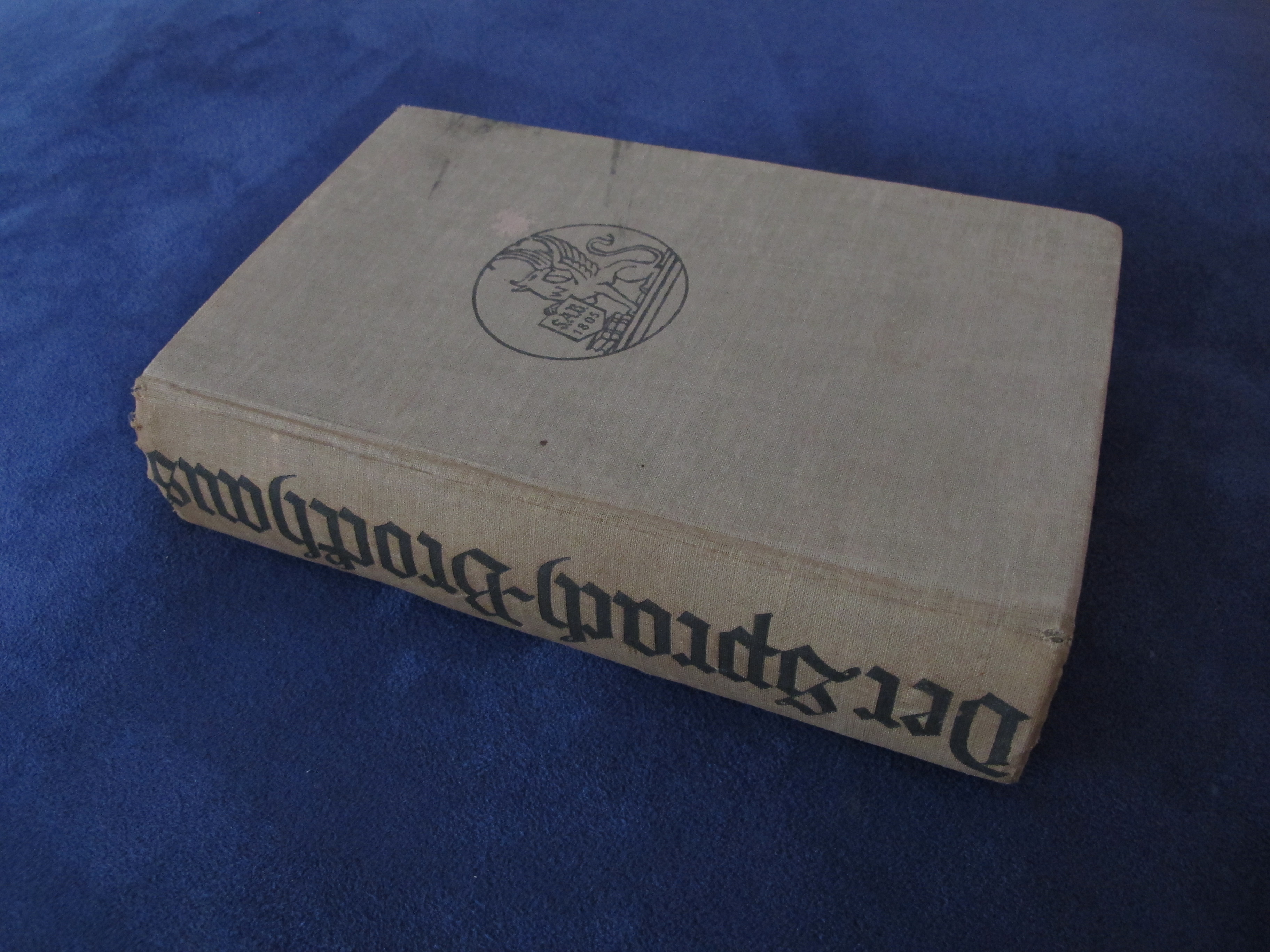 Der Sprach-Brockhaus 1935